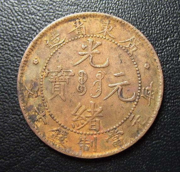 Chinese Coins of Guangxuyuanbao, by Guangdong province.